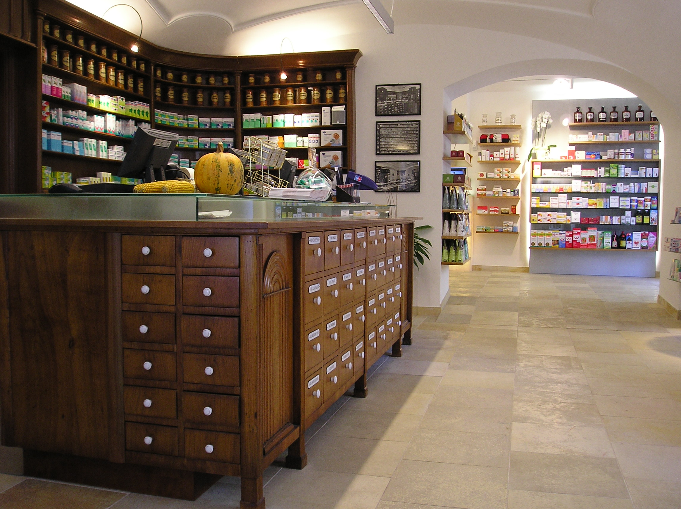 Pharmacy "Zum Goldenen Löwen" at St. Pölten in Austria